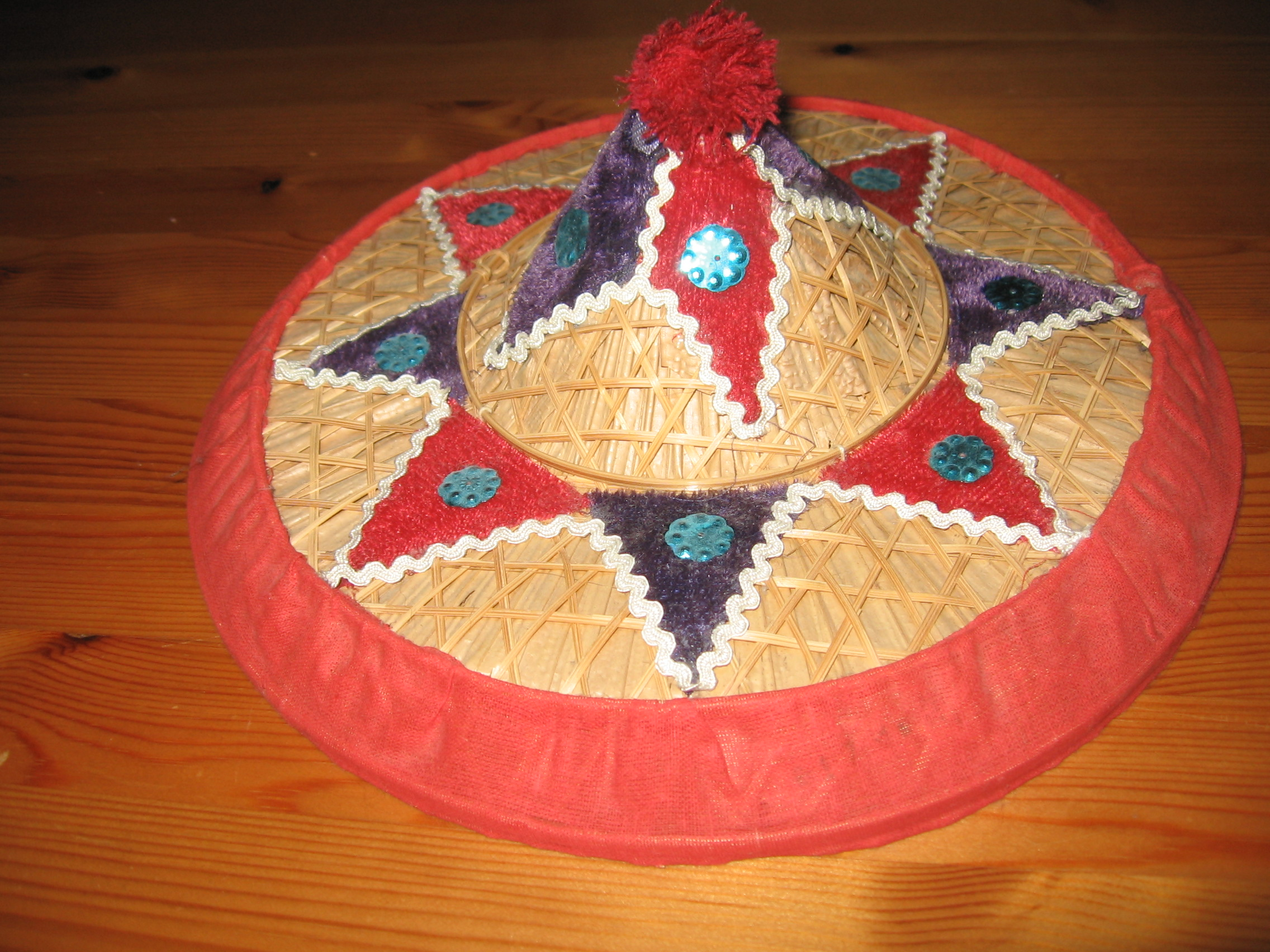 Photograph of an Assamese Jaapi of the decorative kind. This is constructed primarily out of bamboo and leaf while the decorations are felt, threads and tin glitter.